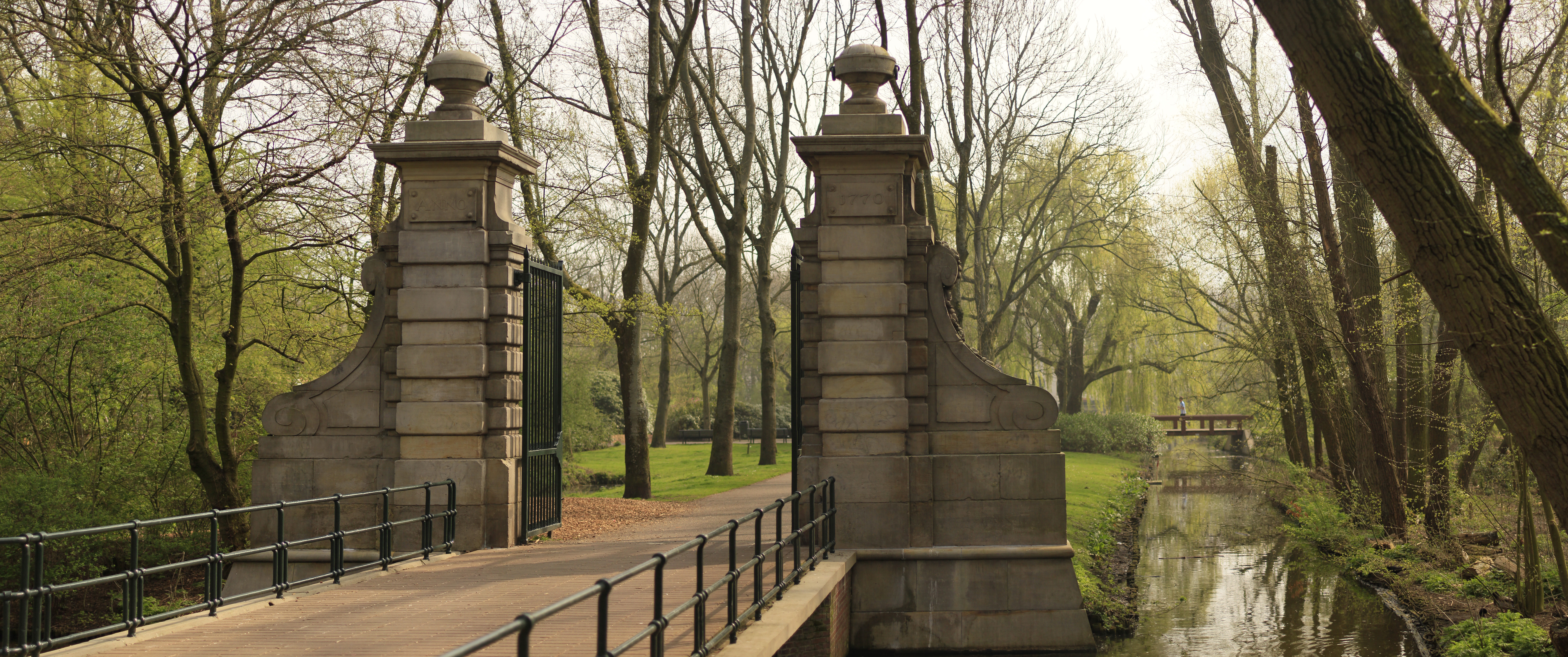 Entrance gate to Flevopark Amsterdam